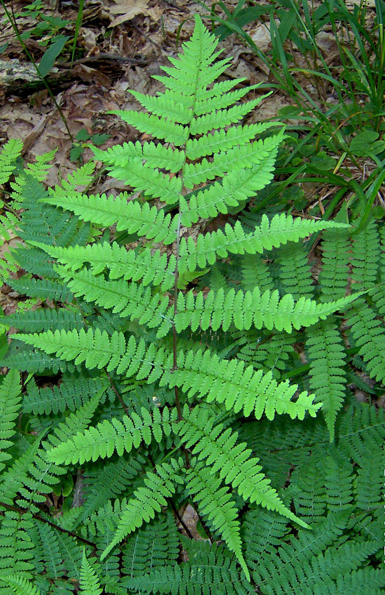 Athyrium filix-femina subsp. angustum in the Monongahela National Forest, West Virginia